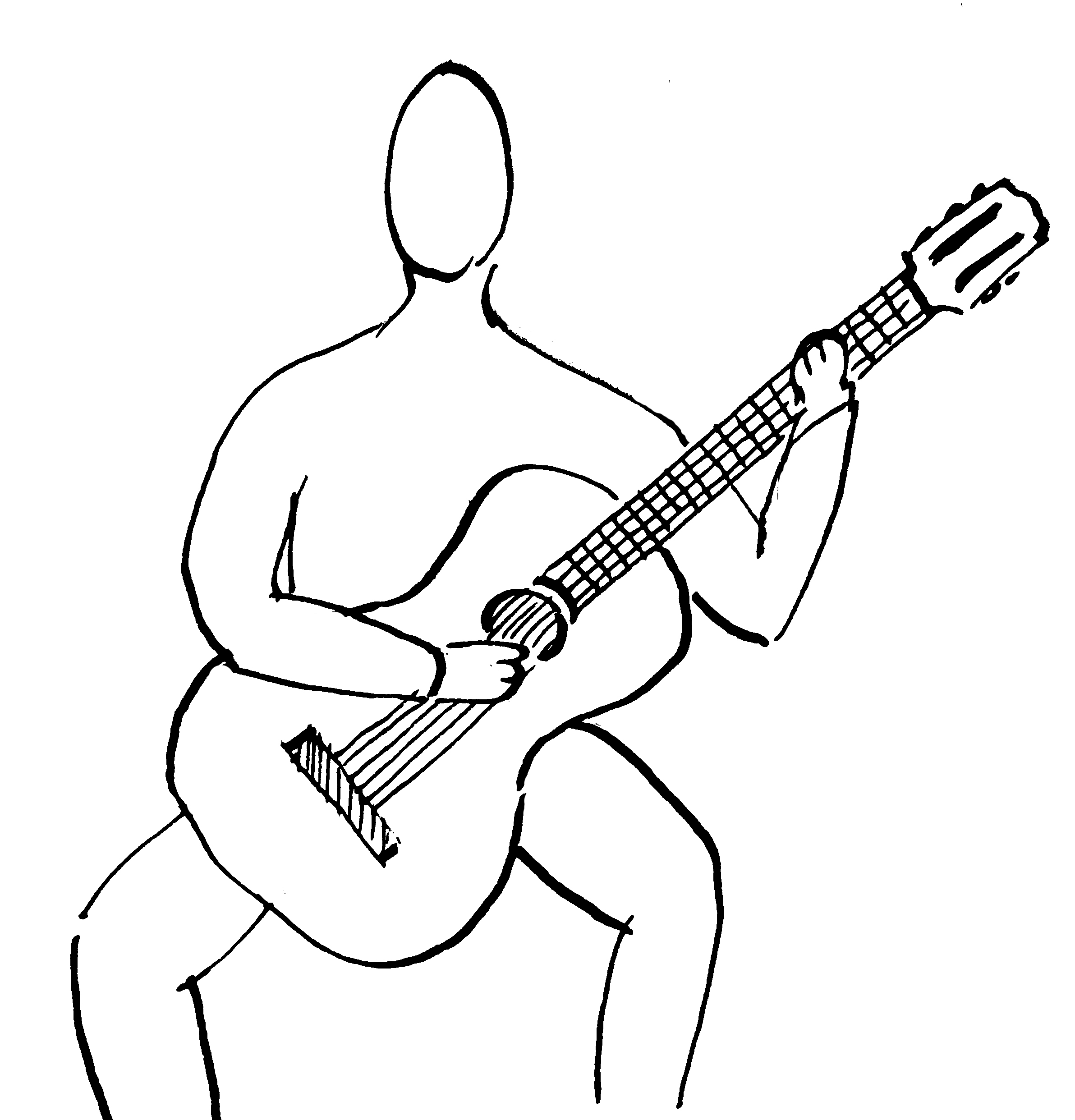 Frontal view classical guitar player